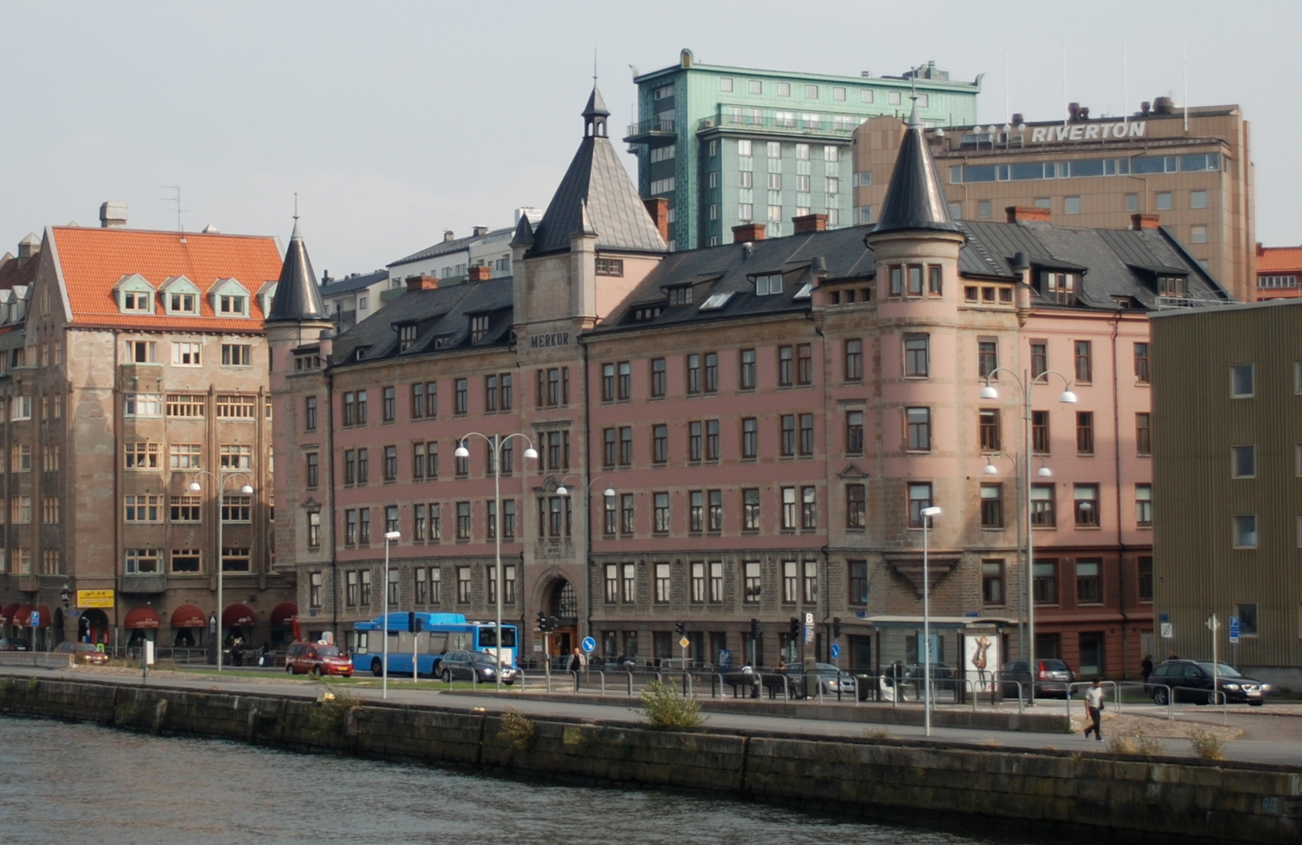 Skeppsbron, Göteborg.